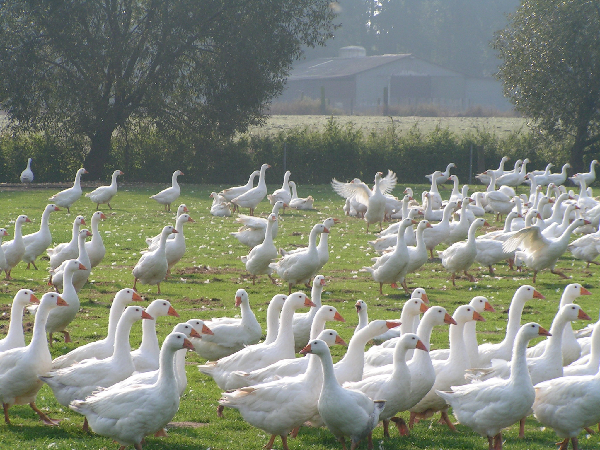 Geese breeding in Brockdorf (Lohne, Lower Saxony)